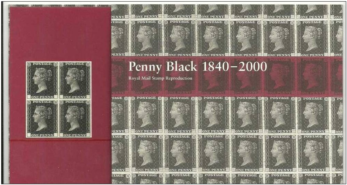 Royal Mail Penny Black facsimile presentation pack 2000.